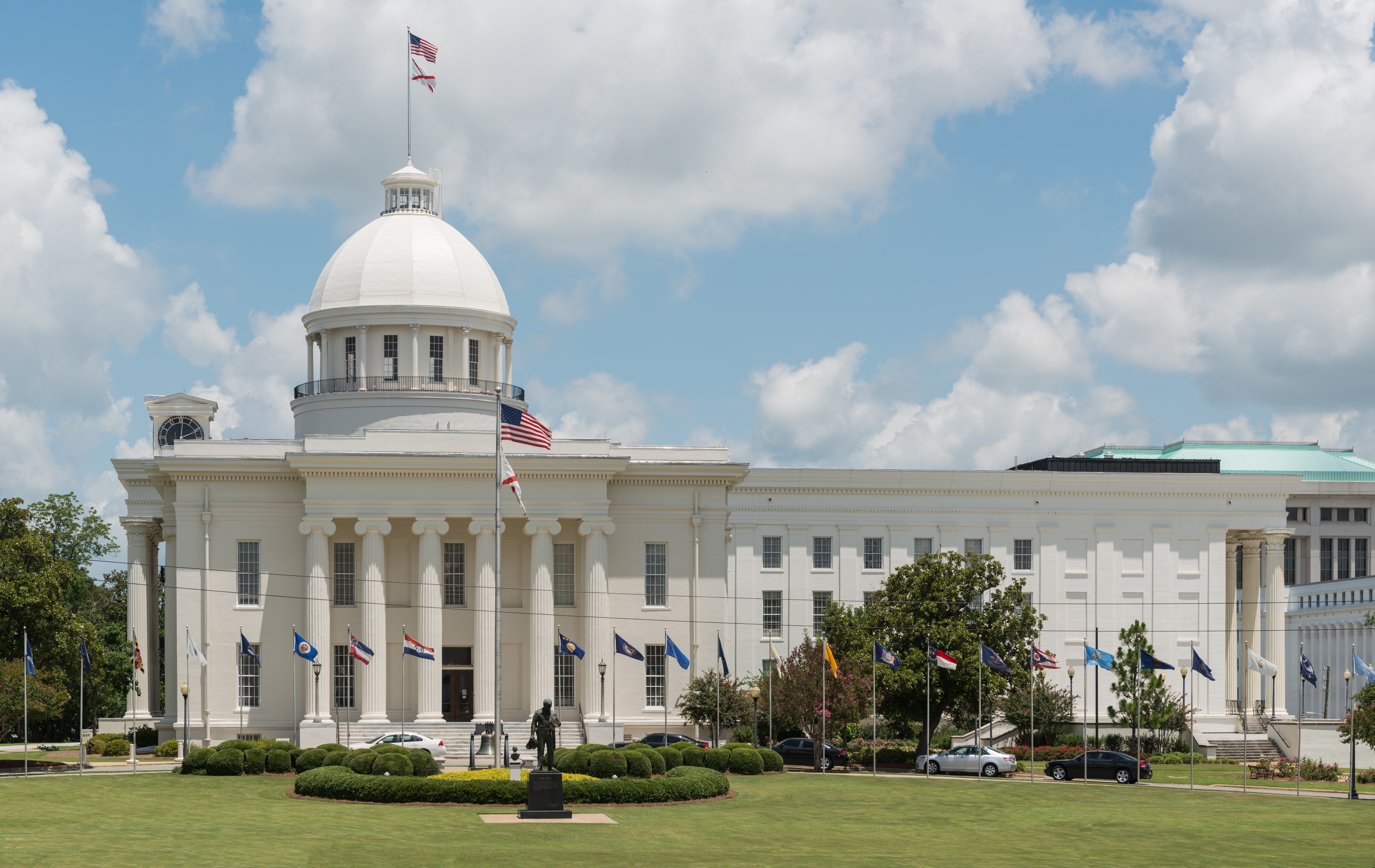 A south view of the Alabama State Capitol, as seen from the Alabama Archives